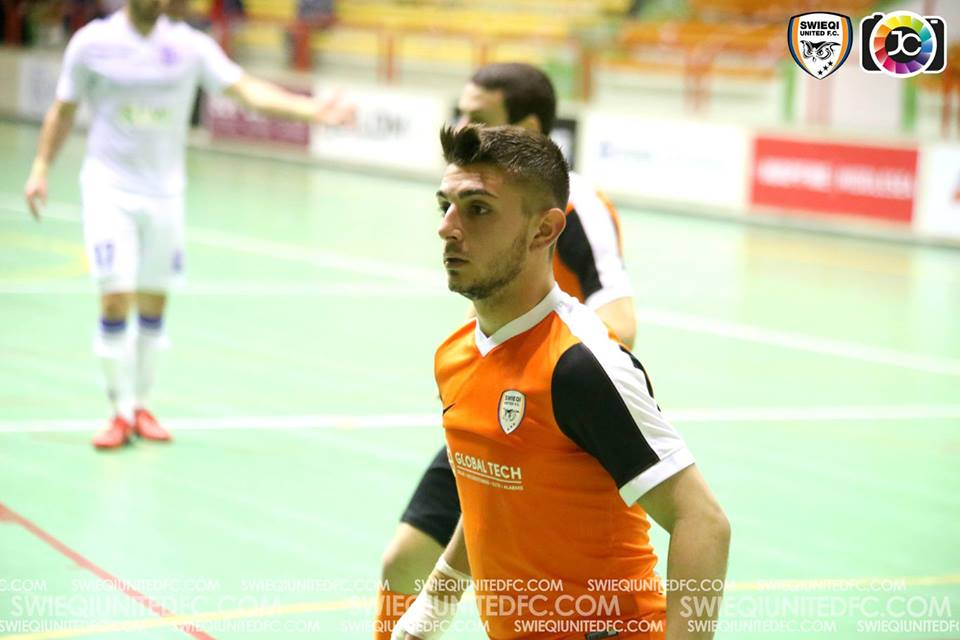 Swieqi United Nike Kit.